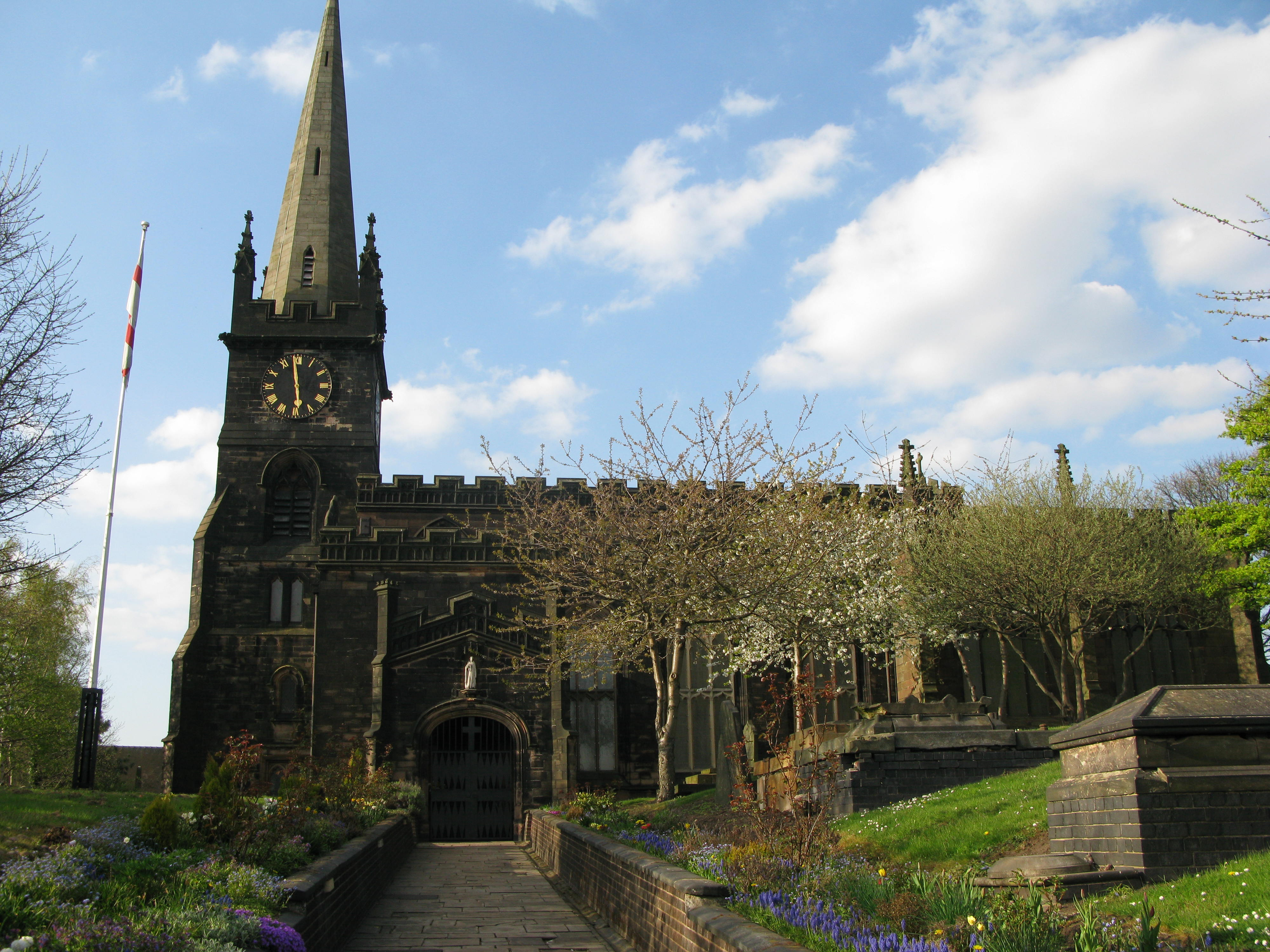 St Bartholomew's parish church, Wednesbury, West Midlands, seen from the south